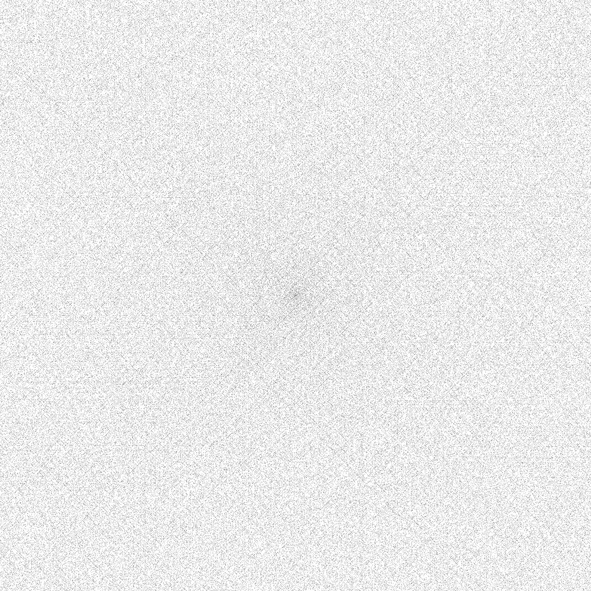 Ulan Spiral 2000x2000